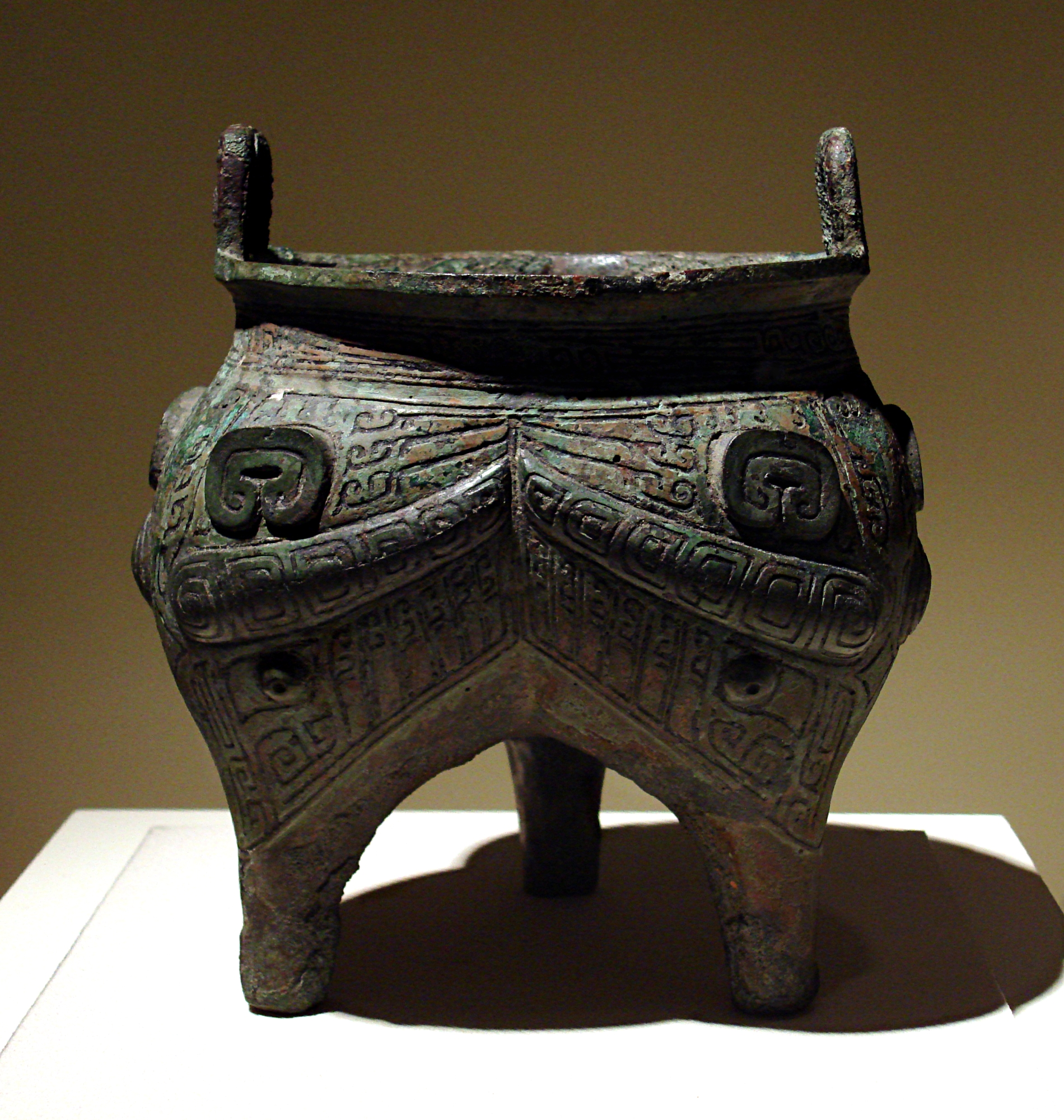 Bronze Li (cooking tripod) Western Zhou Dynasty (1046 - 771 B.C.) The belly of this cooking tripod are decorated with animal faces and an ox head with protruding eyes. The bronze li first appeared during the Shang Dynaty, and beame popular during the Western Zhou Period, but declined during the period of the Warring States.